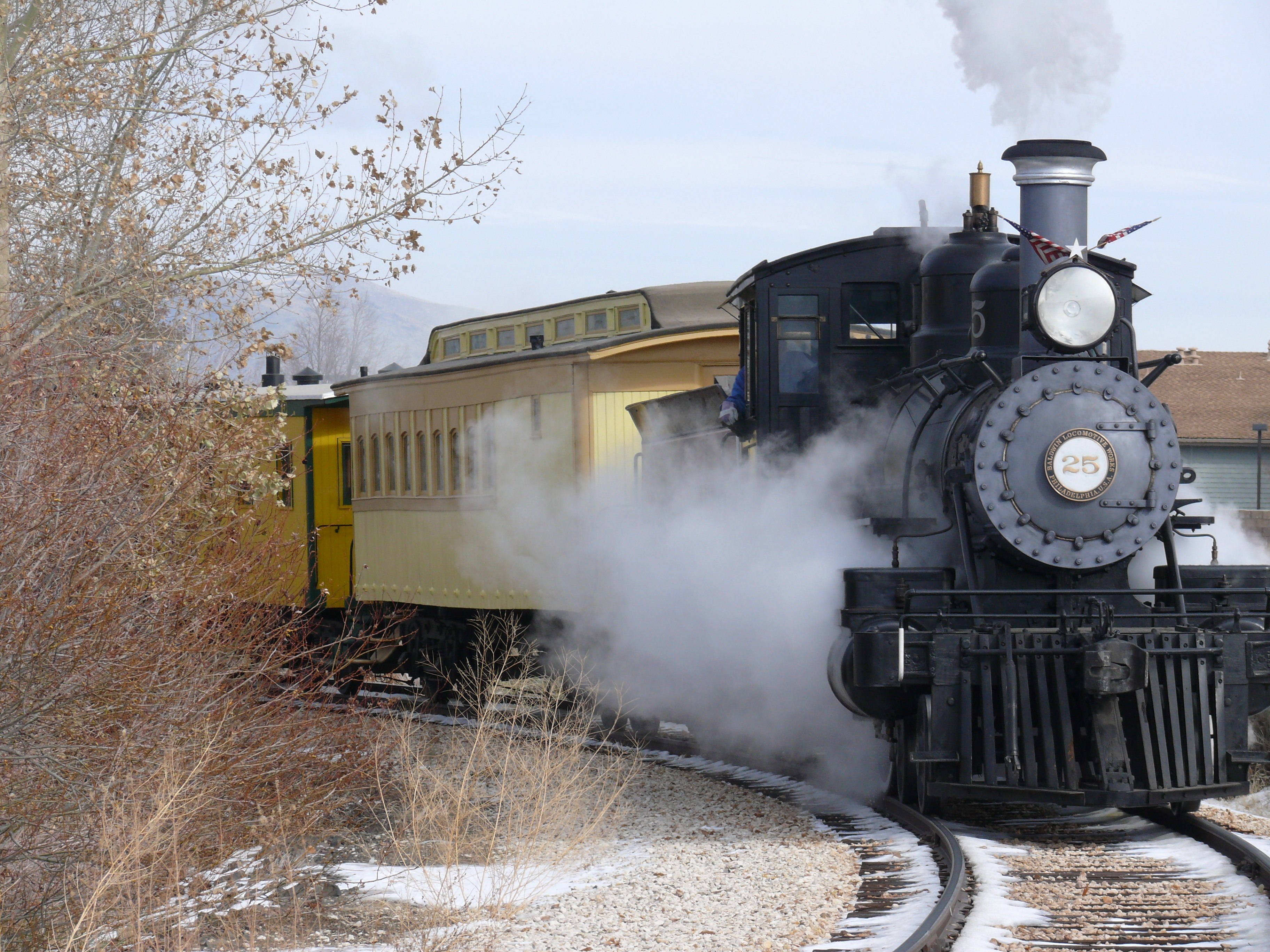 At the Nevada Railroad Museum in Carson City, NV